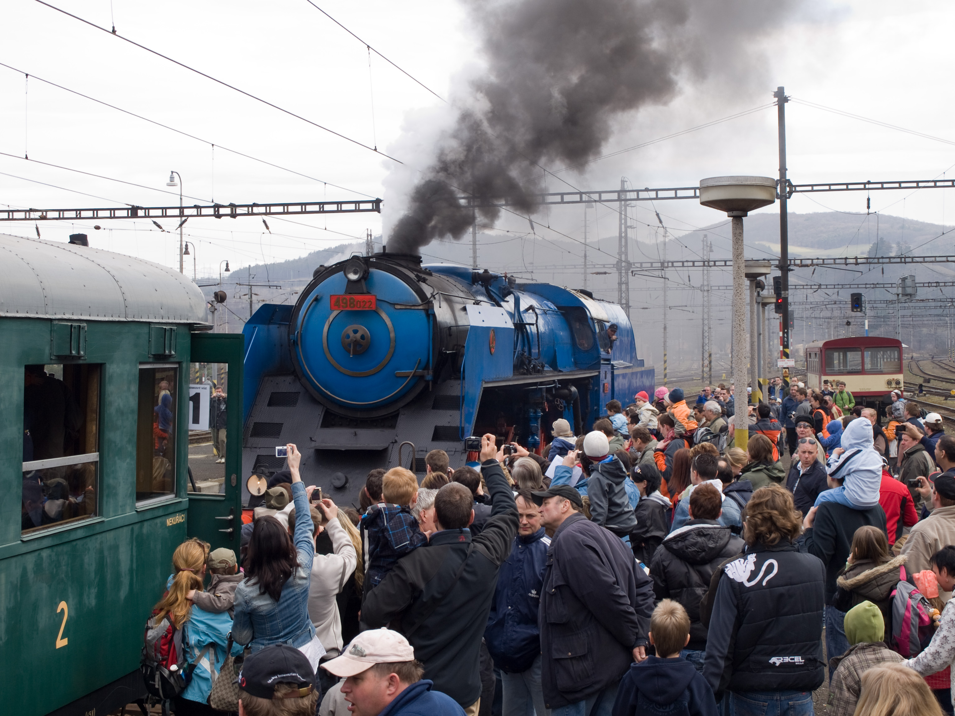 Albatros locomotive, historical train Křivoklát expres